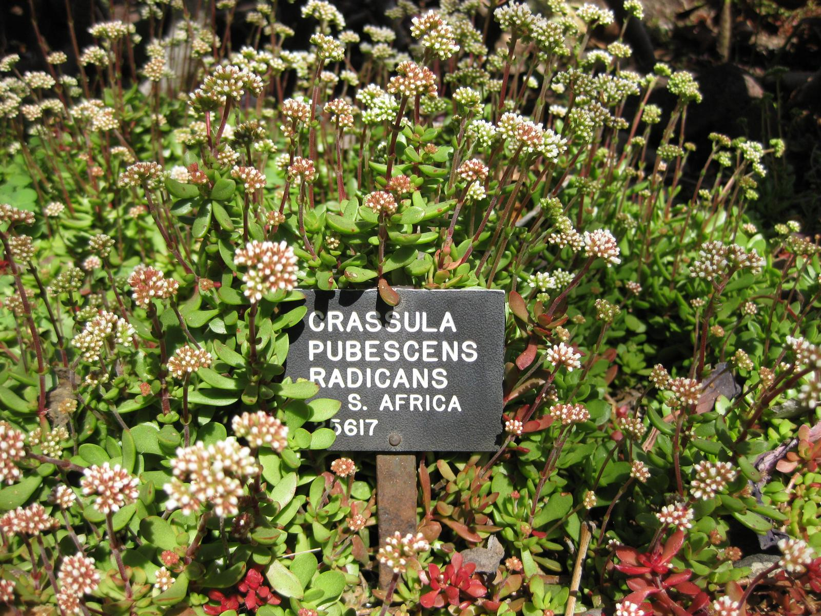 Photographed at Huntington Gardens (Los Angeles, California) in March